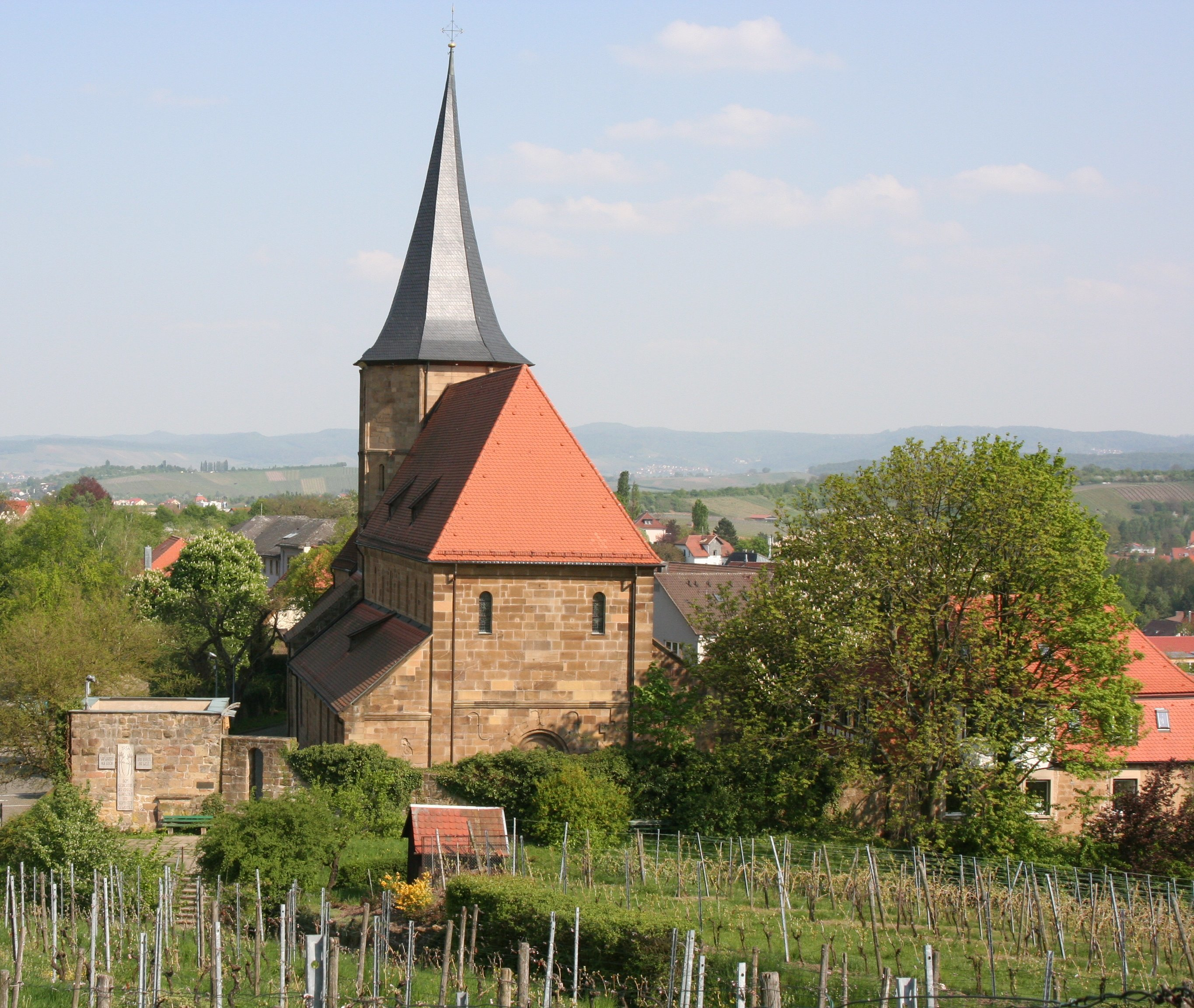 The Johanneskirche in Weinsberg from the North-West. Picture taken from the castle hill